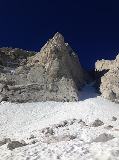 On the approach from Dade Lake to the East Arete of Bear Creek Spire